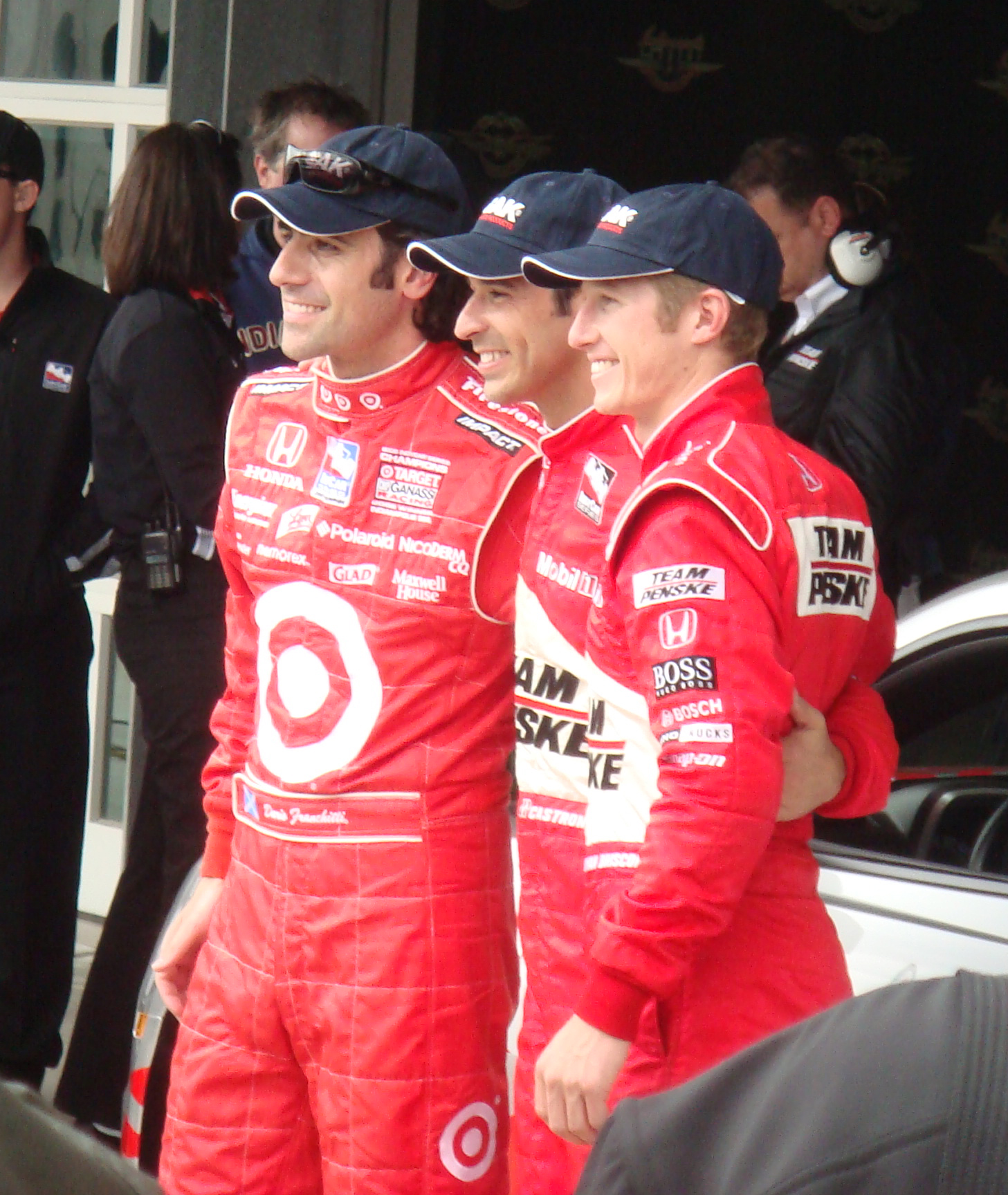 Front row qualifiers for the 2009 Indianapolis 500 (L to R): Dario Franchitti (qualified 3rd), Hélio Castroneves (1st), Ryan Briscoe (2nd).